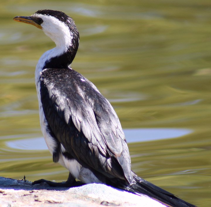 Little Pied Cormorant - Kings Park, Perth WA April 06 photo - Cas Liber